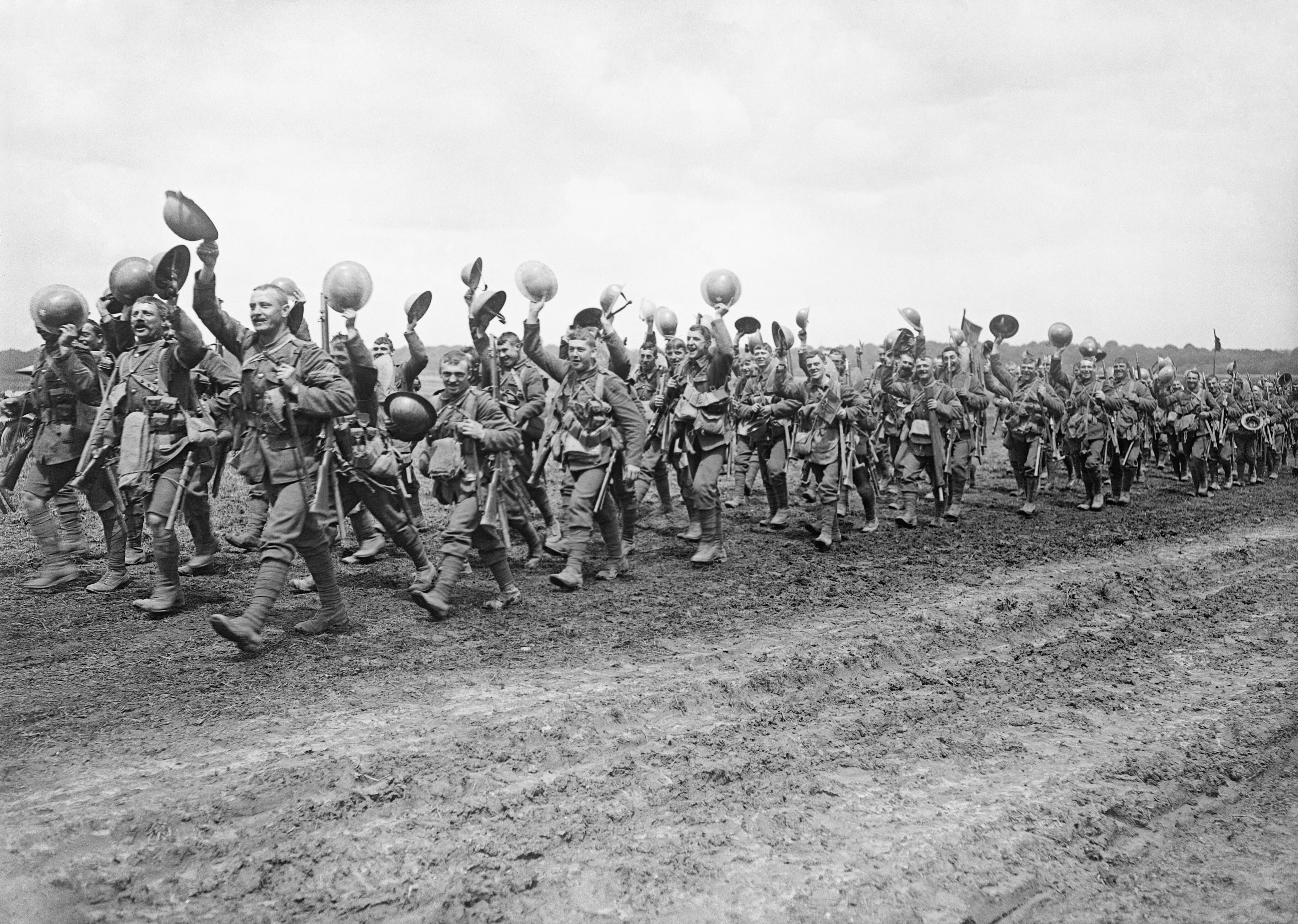 The Battle of the Somme, July-november 1916 Troops of the 4th Battalion, Worcestershire Regiment (29th Division) marching to the trenches; Acheux-en-Amiénois, 27 June 1916.